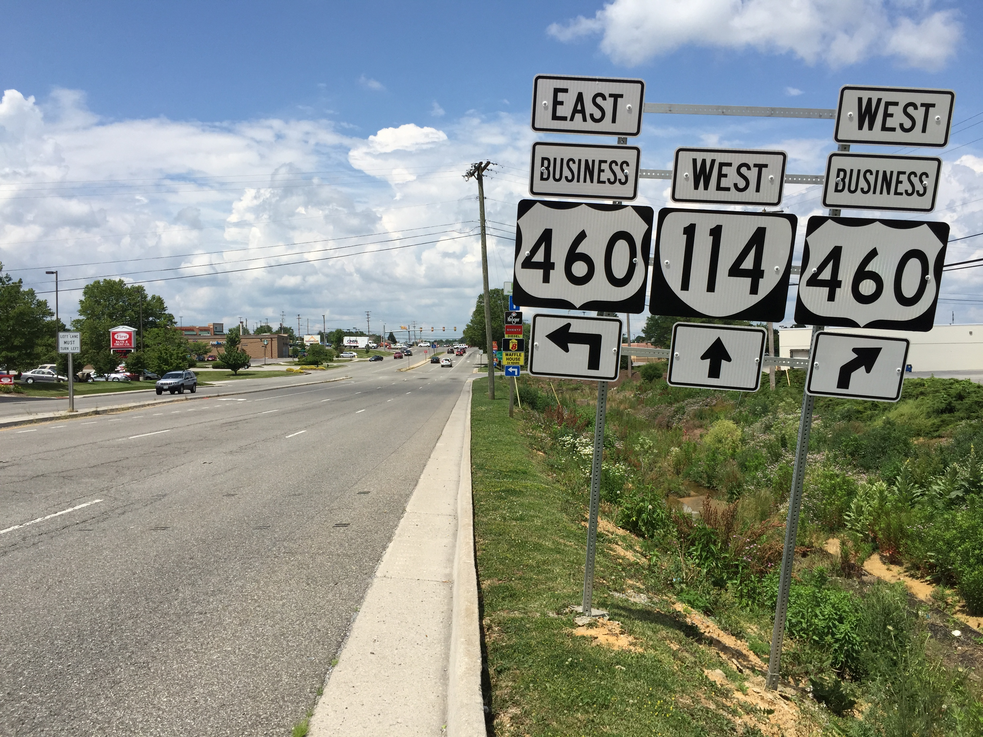 View west along Virginia State Route 114 (Peppers Ferry Road) at Laurel Street in Christiansburg, Montgomery County, Virginia